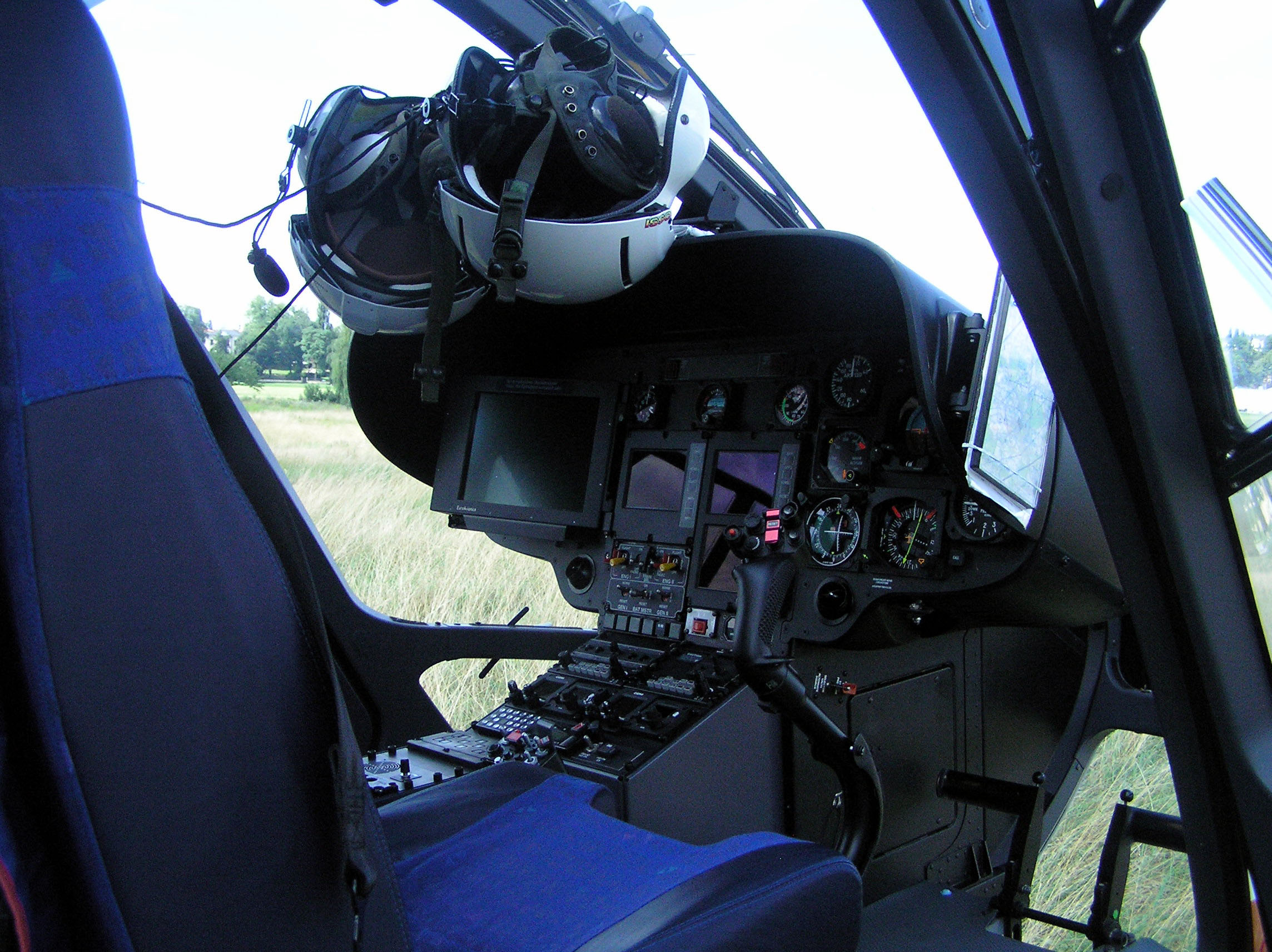 Eurocopter EC135 T2+ - air ambulance in Dresden